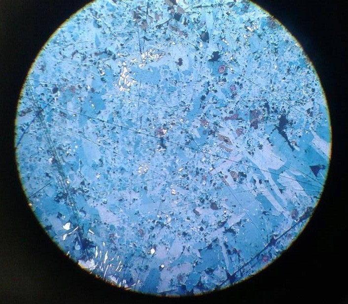 Microscopic image of Covellite and Pyrite